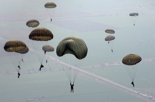 A C-130E Hercules delivers U.S. Air Force and Bulgarian Special Forces paratroopers to a drop zone near Bezmer Aviation Base, Bulgaria, during Exercise Thracian Spring 2008. The Airmen from the 86th Contingency Response Group, Sembach Air Base Germany and soldiers from the 68th Special Forces Brigade will conduct several day and night static line jumps for the annual bilateral training exercise between the United States and Bulgarian Armed Forces. Approximately 170 aircrew and support personnel assigned to the 86th Air Lift Wing and 435th Air Base Wing along with four C-130E Hercules from the 37th Air Lift Squadron at Ramstein Air Base, Germany are deployed to the region for the week-long exercise. Photo by Master Sgt. Scott Wagers / (released)